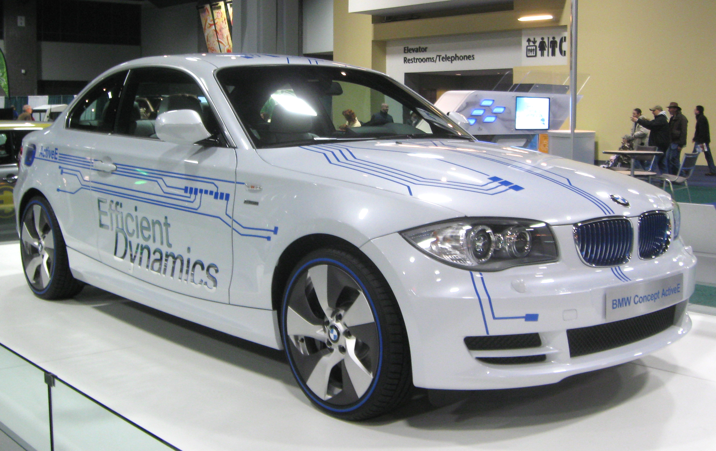 BMW Concept ActiveE photographed at the 2010 Washington Auto Show.